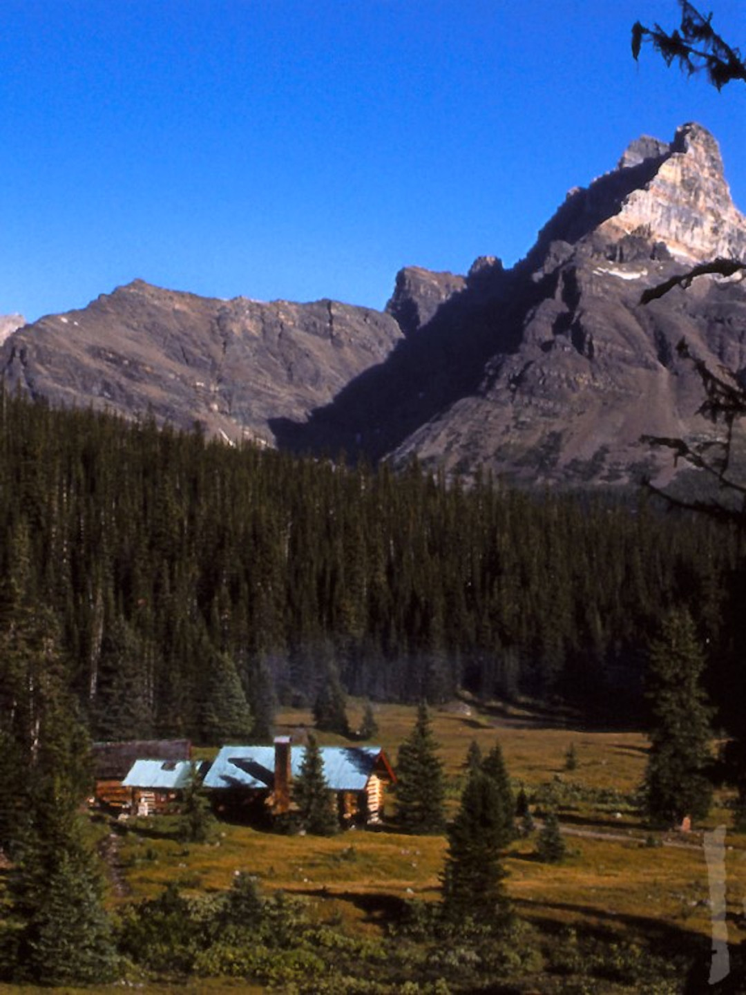 Elizabeth Parker Hut & Cathedral Mountain